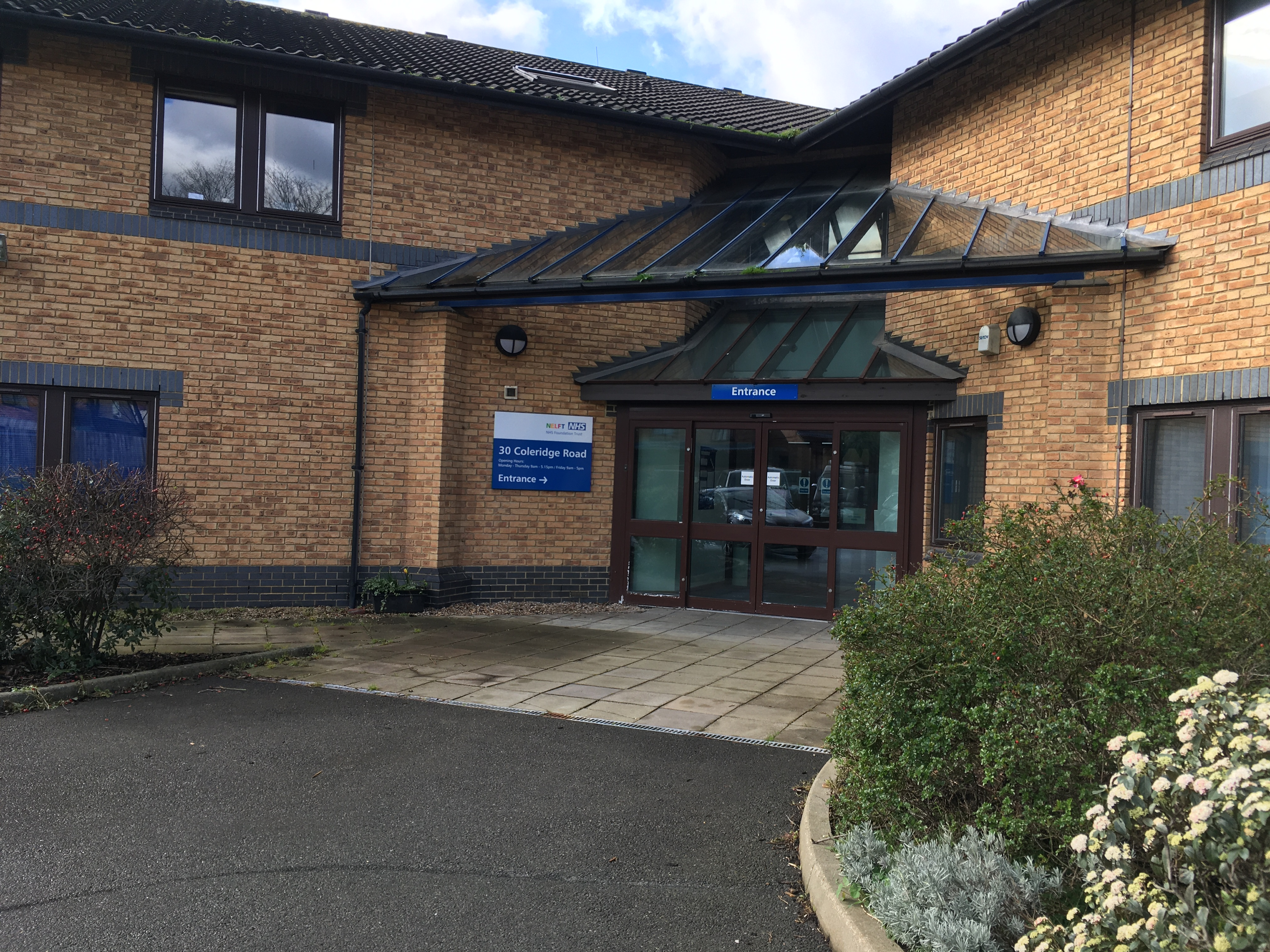 30 Coleridge Road, 27 February 2020